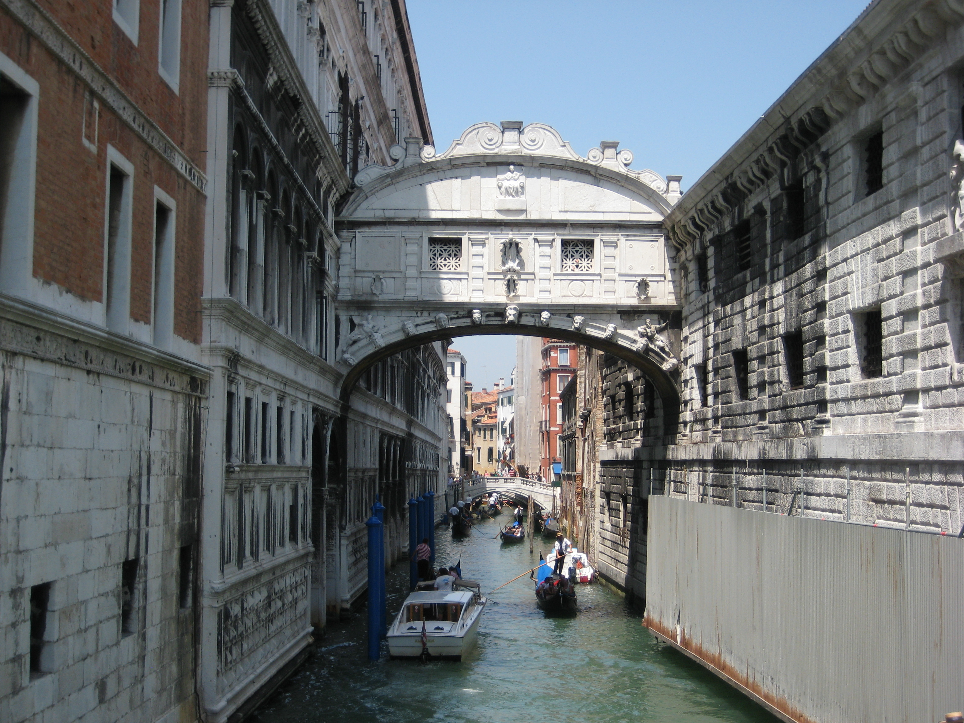 The Bridge of Sighs in Venice, Italy.